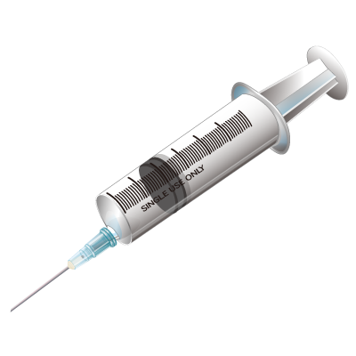 Needle syringe. Images are from Togo picture gallery maintained by Database Center for Life Science (DBCLS).